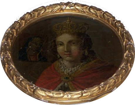 Mausoleum in theSantuario di Montevergine - portrait of Catherine of Valois